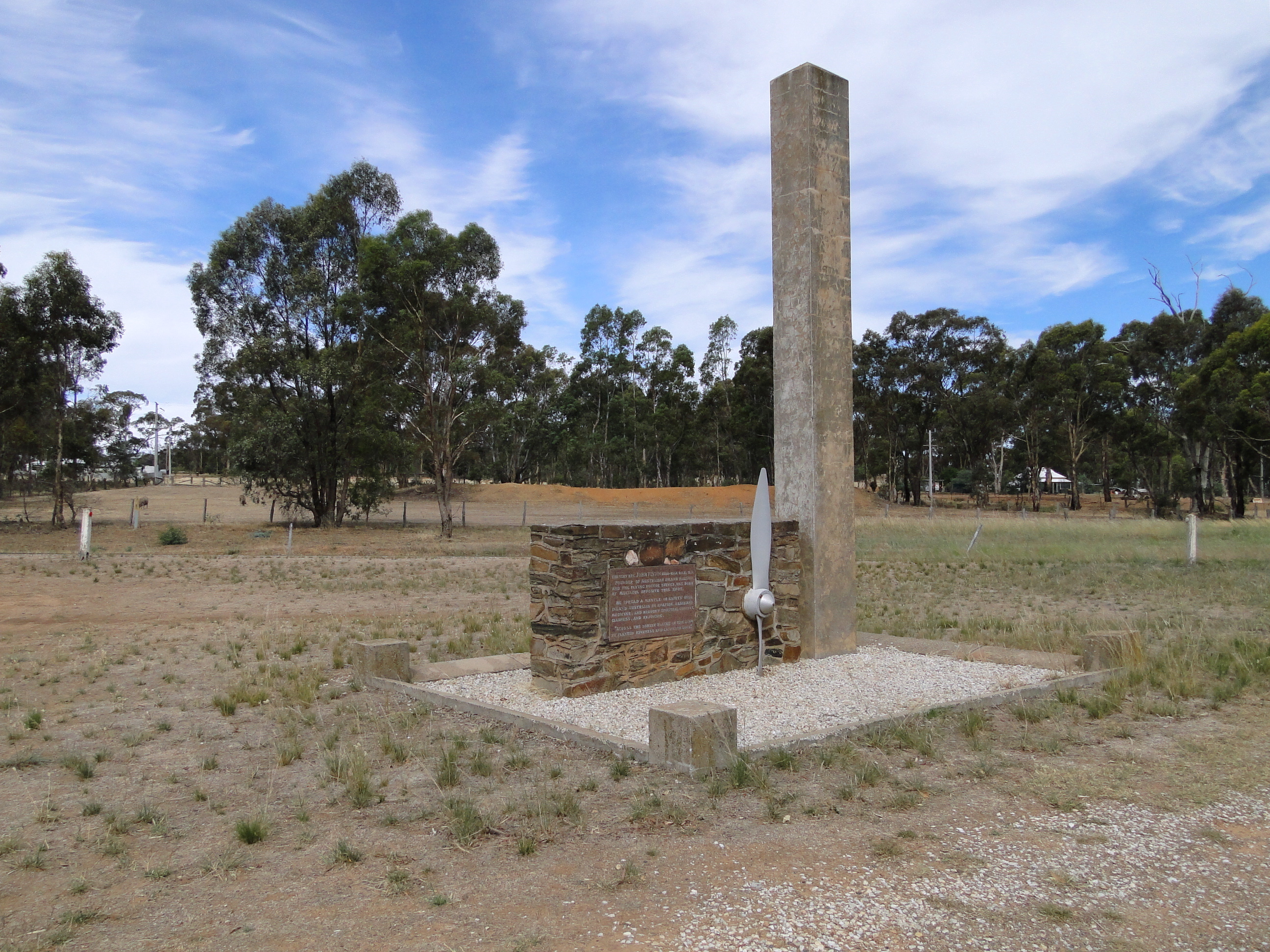 Monument at Moliagul, Victoria, to celebrate the birth of John Flynn in the town.